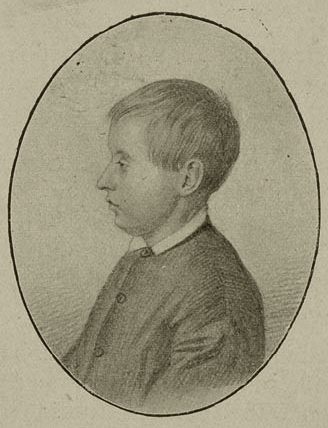 Emile Jerome Sillem as an asolescent (around 1860)